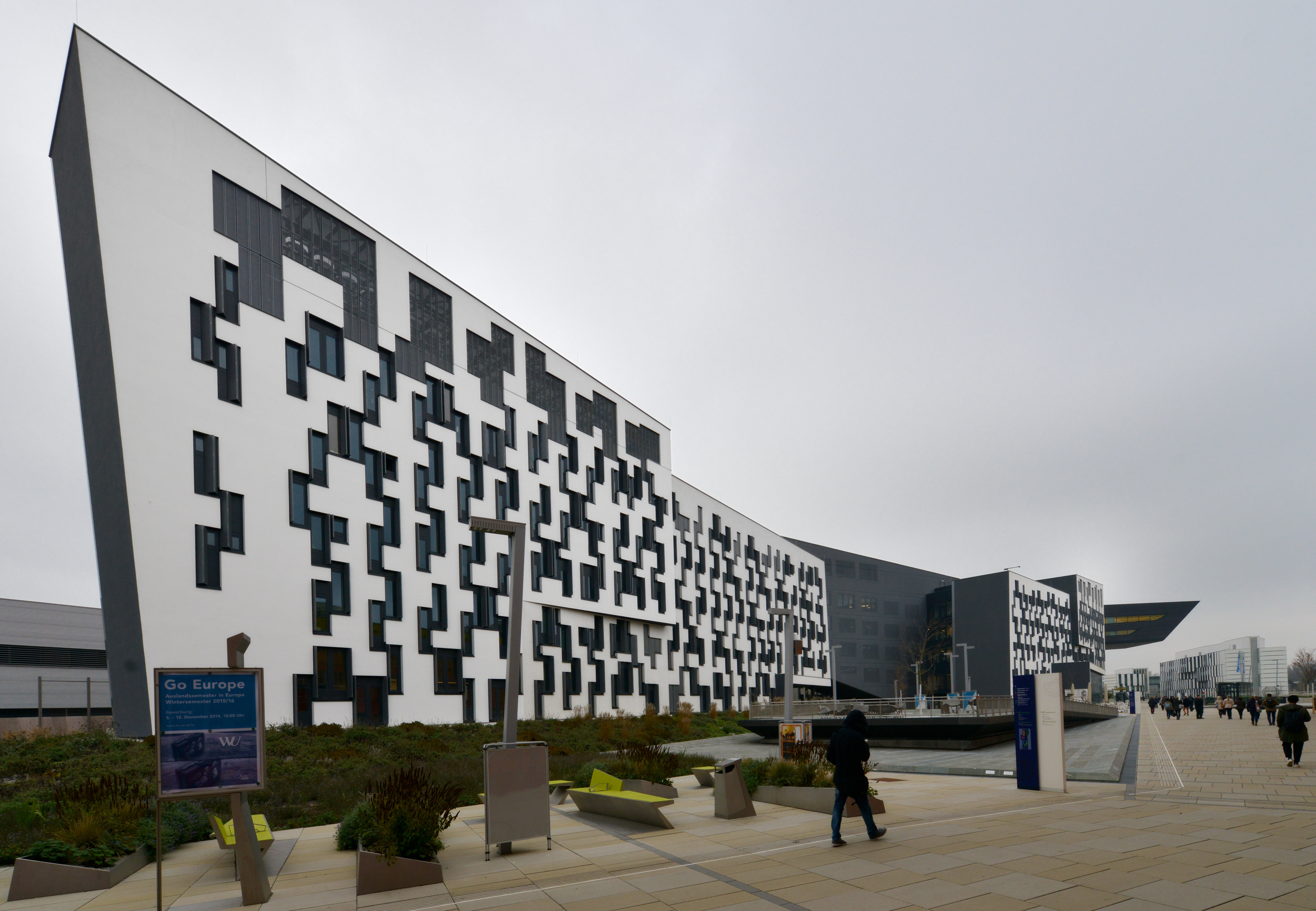 Campus of the Vienna University of Economics and Business, Departement 4 (D4) (architect: Estudio Carme Pinós). Welthandelsplatz 1, 2nd district of Vienna.